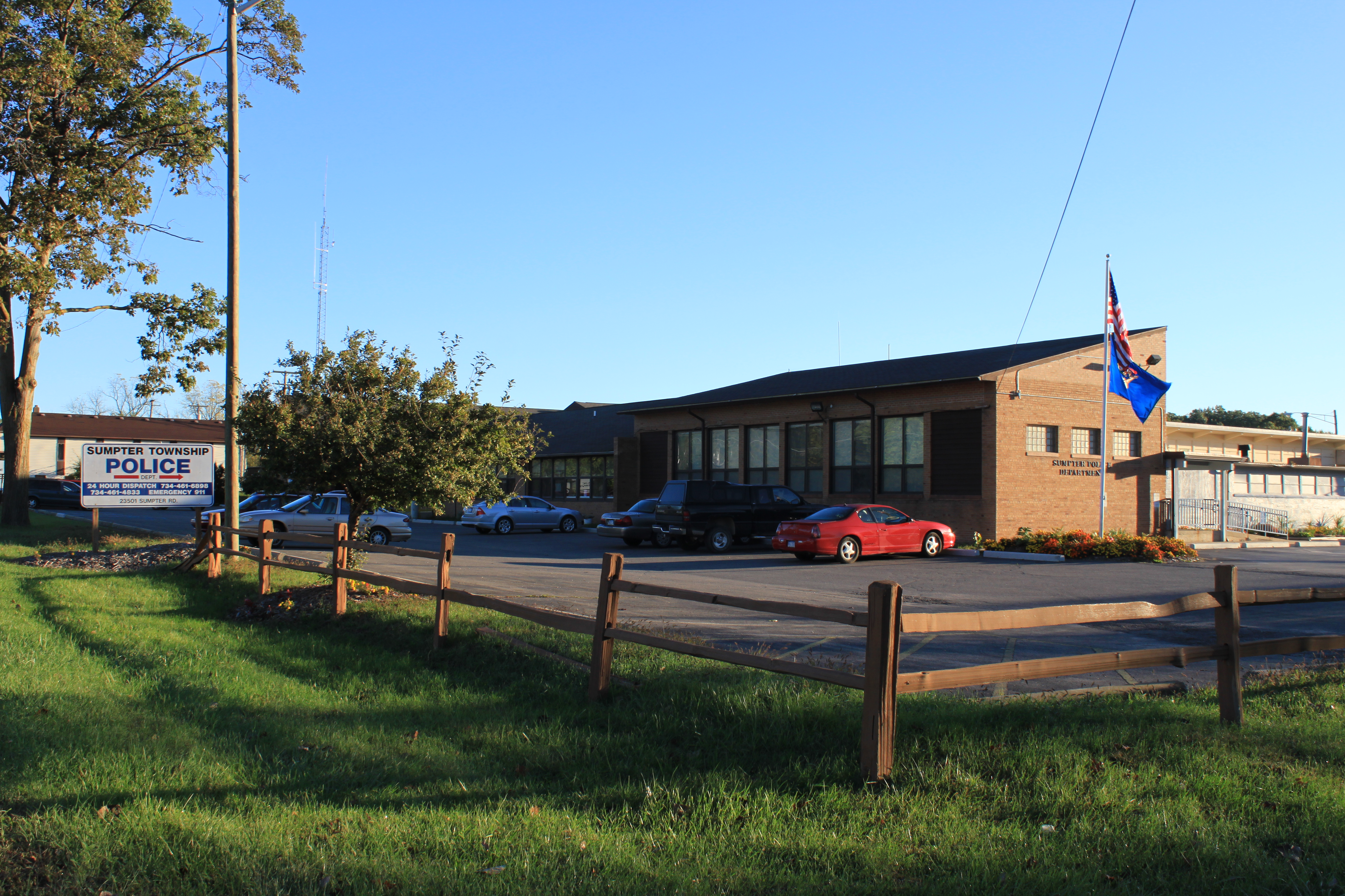 Sumpter Township Michigan Police Department building, 23501 Sumpter Road